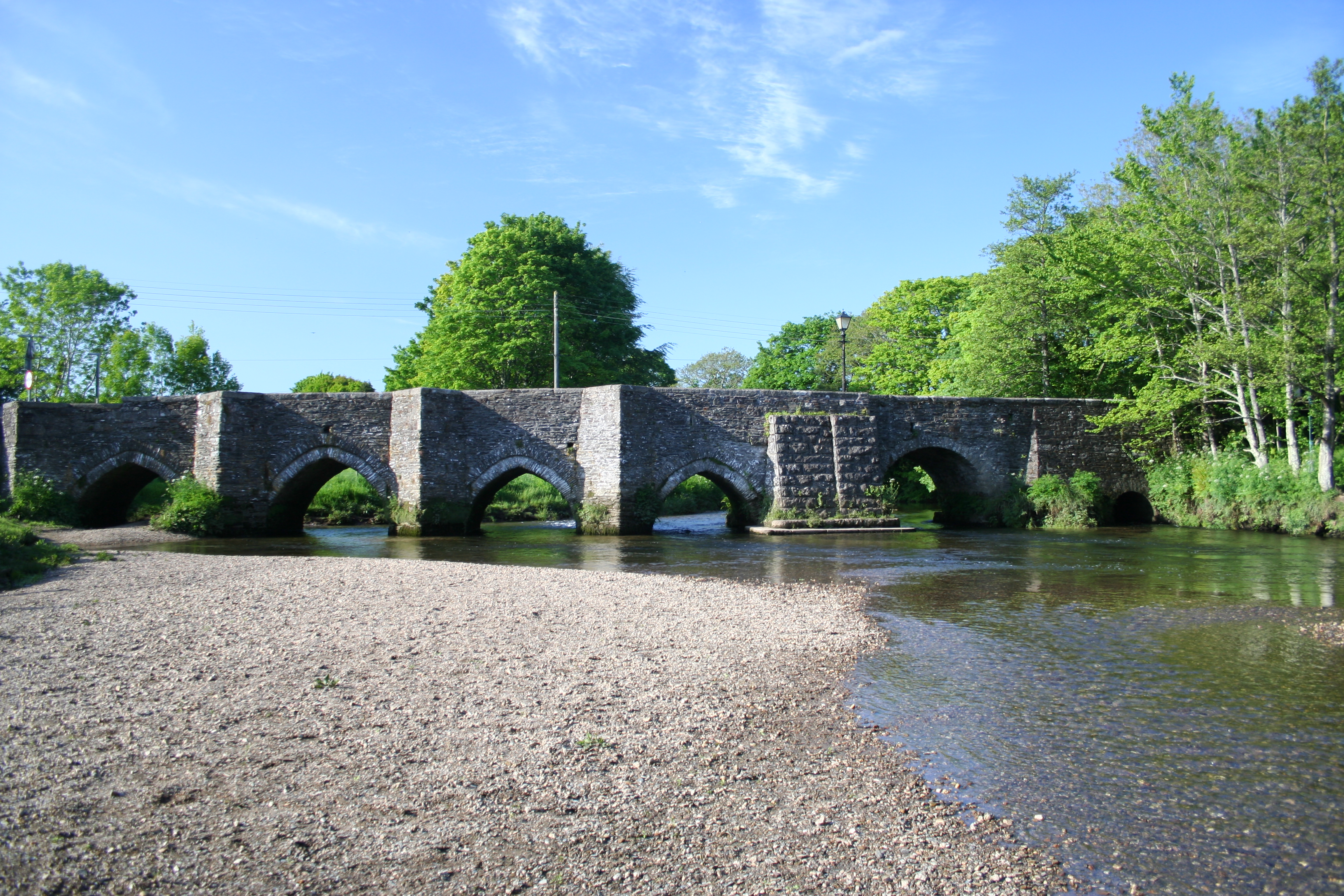 The 12th century bridge at Lostwithiel crosses the river Fowey.